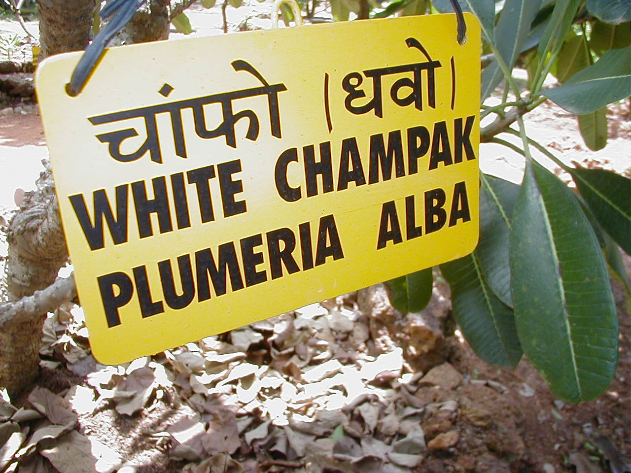 Plant collection of the TSKK, Goa, India. The tree planted by the sign is in fact Plumera rubra, not P. laba. Photo by Frederick "FN" Noronha 2004